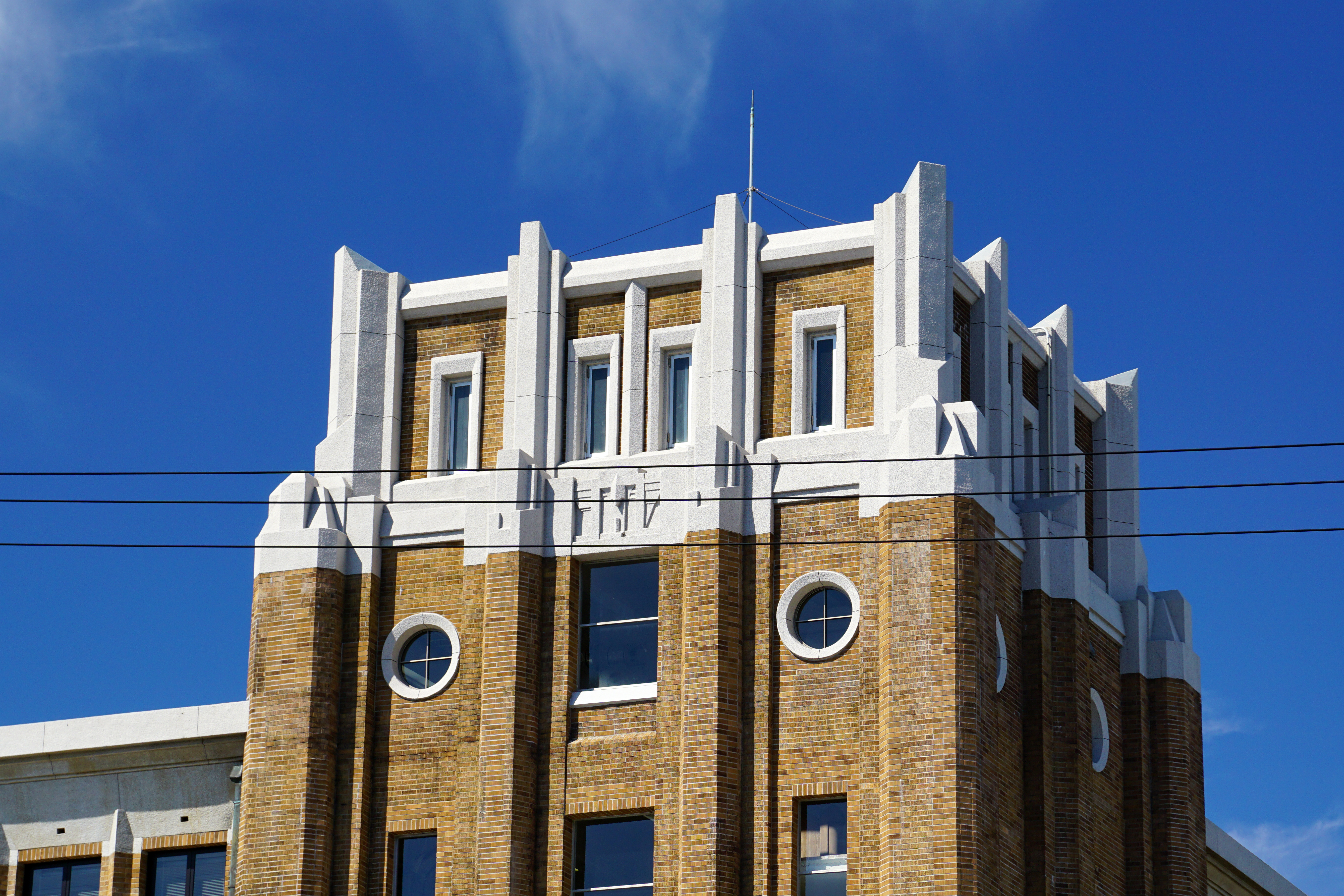 Former National Raw Silk Conditioning Houses in Kobe Hyogo prefecture, Japan.